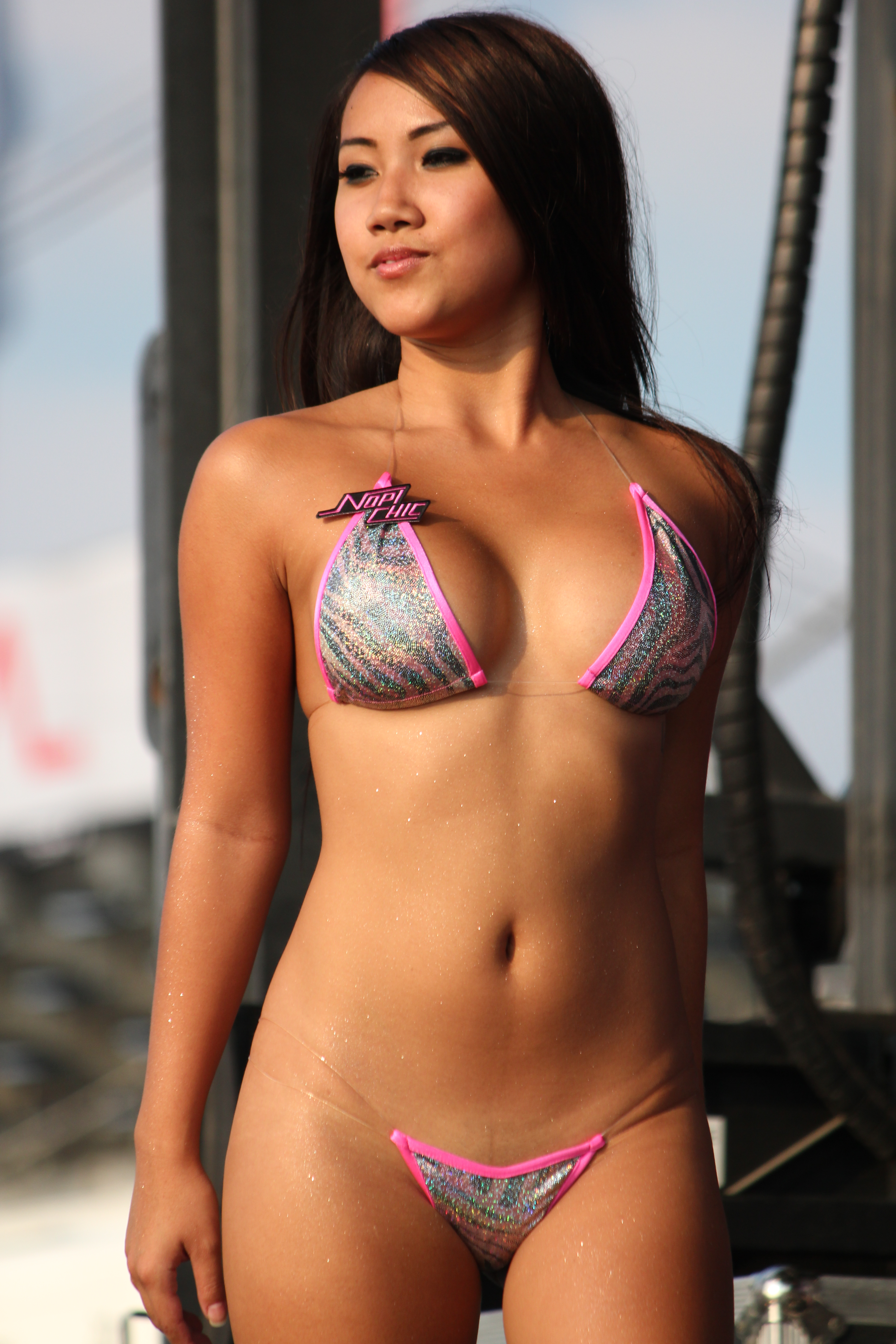 Woman wearing a bikini.